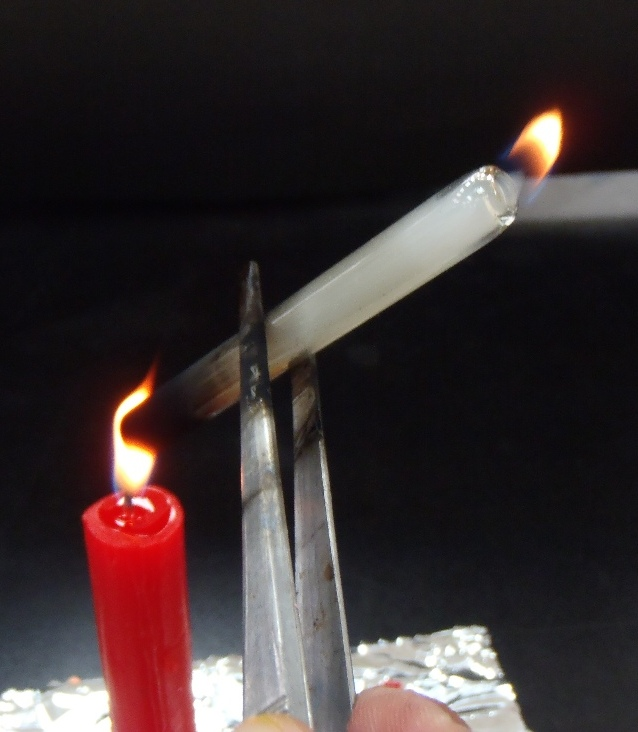 candle vapor burning at another end of glass tube